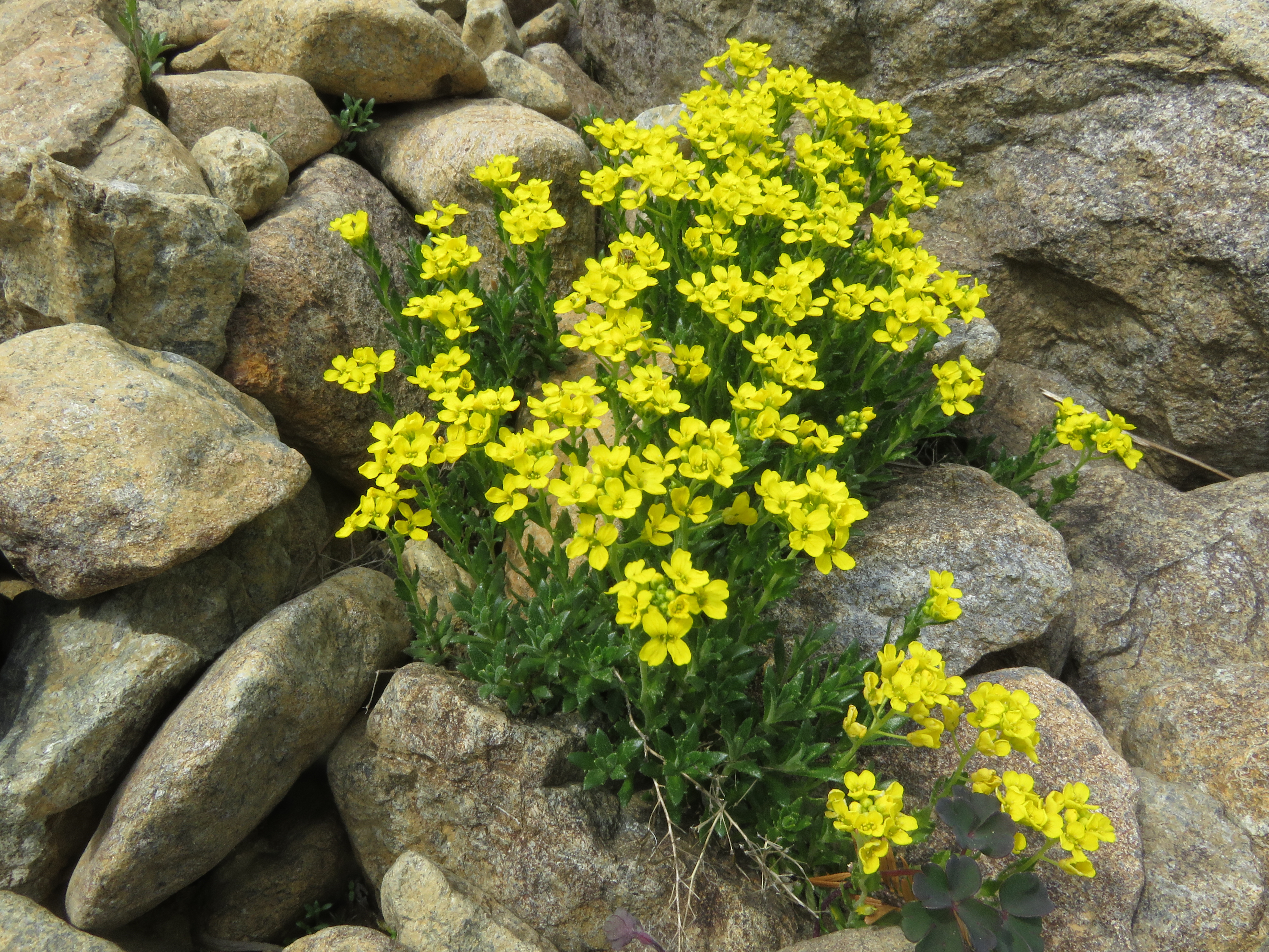 Draba japonica, Mount Hayachine, Iwate pref., Japan